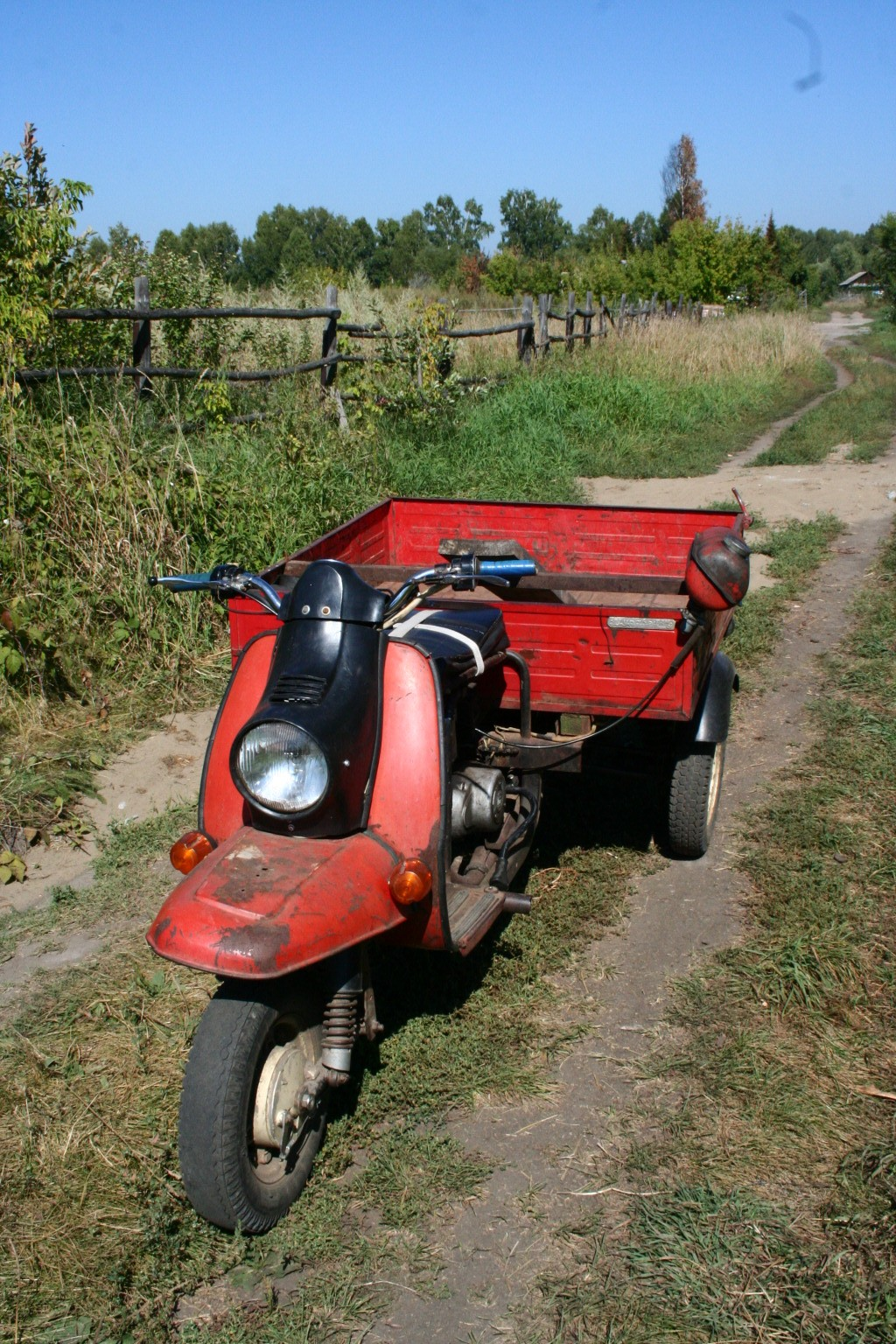 Russian cargo scooter Muravey 2M 01